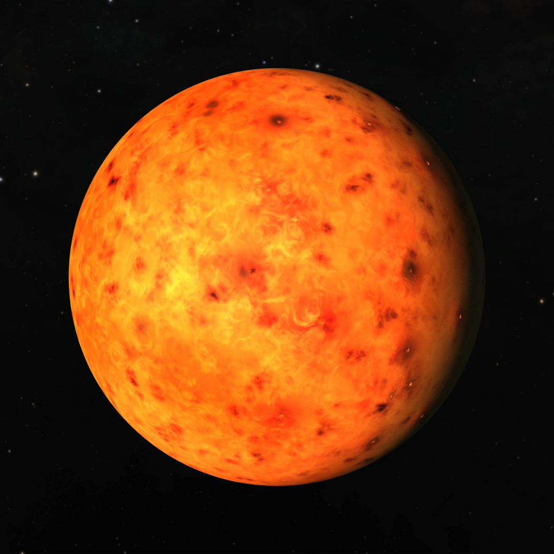 Artist's impression of the exoplanet TRAPPIST-1b, located in the Aquarius system of TRAPPIST-1. Originally created for NASA as part of their announcement of discoveries in the TRAPPIST-1 system on 22 February 2017. According to NASA, the planet was modeled after Jupiter's moon Io, "which has volcanic features due to strong gravitational tugs." Screenshotted and cropped from File:PIA21468 - TRAPPIST-1 Planets - Flyaround Animation.ogg.